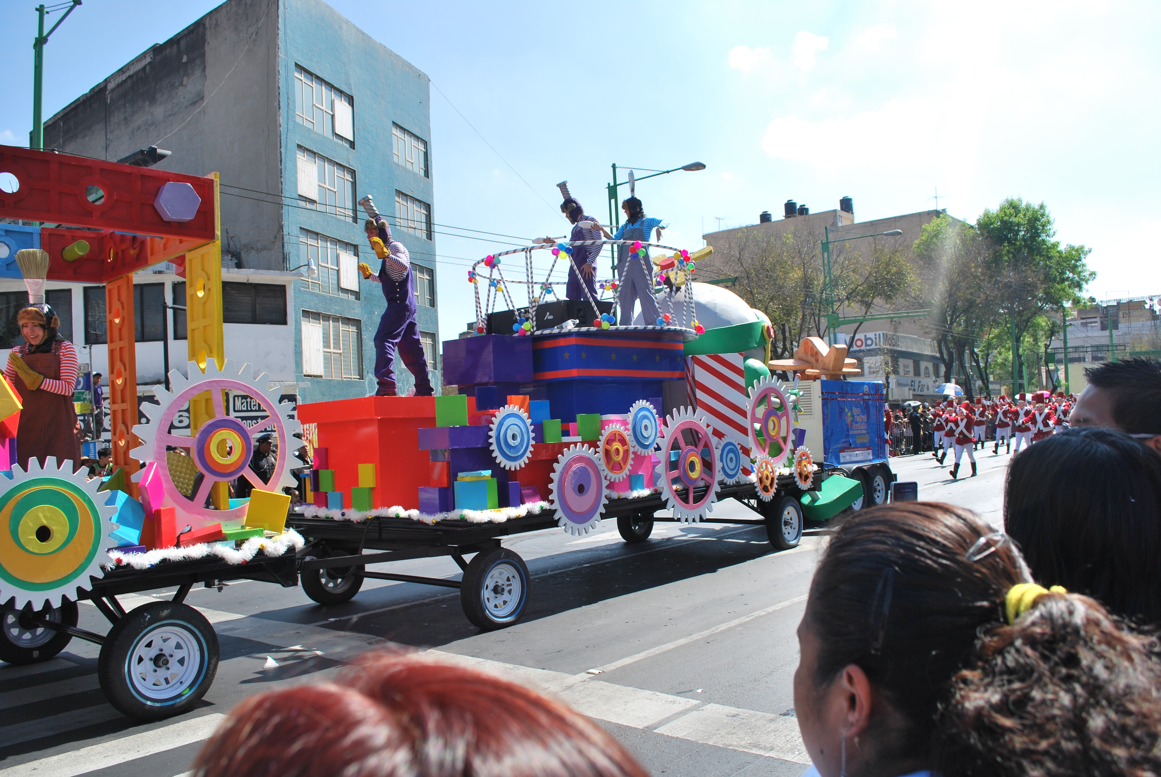 Float at the Mexico City Christmas parade